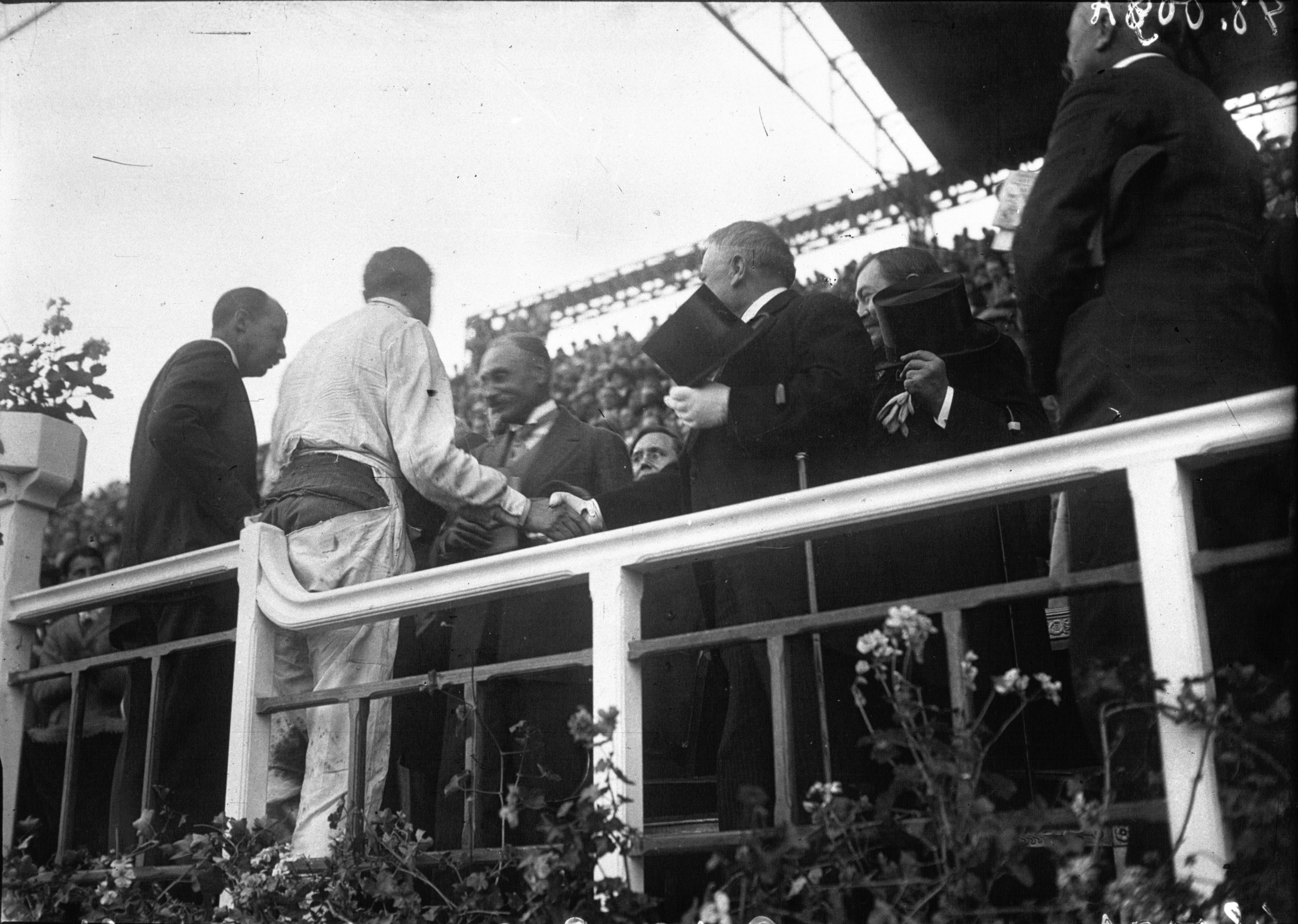 Robert Benoist at the 1927 French Grand Prix